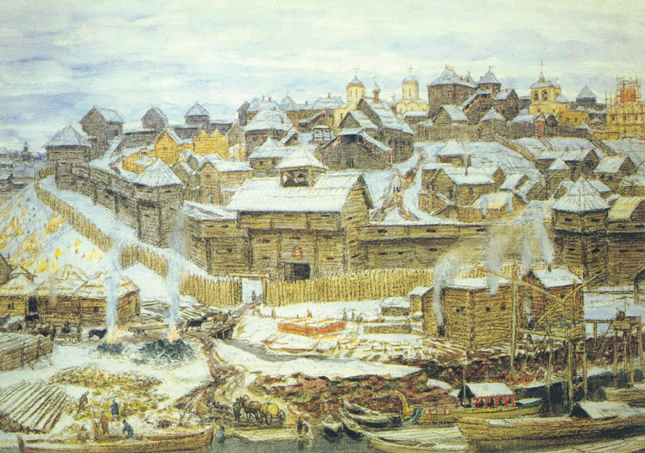 The Moscow Kremlin during the time of Prince Ivan Kalita (early XIV century) by Apollinari Vasnetsov (1921)